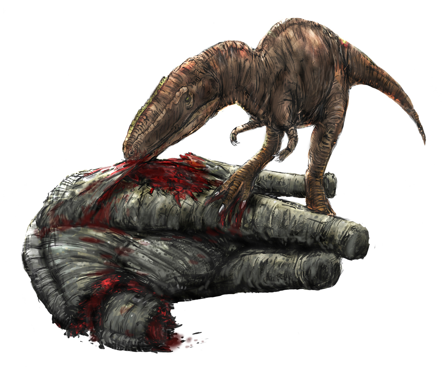 Tyrannotitan chubutensis feeding on a Chubutisaurus insignis.